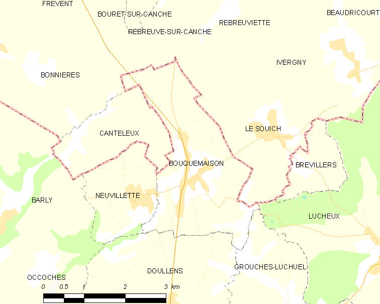 Map of French municipality Bouquemaison